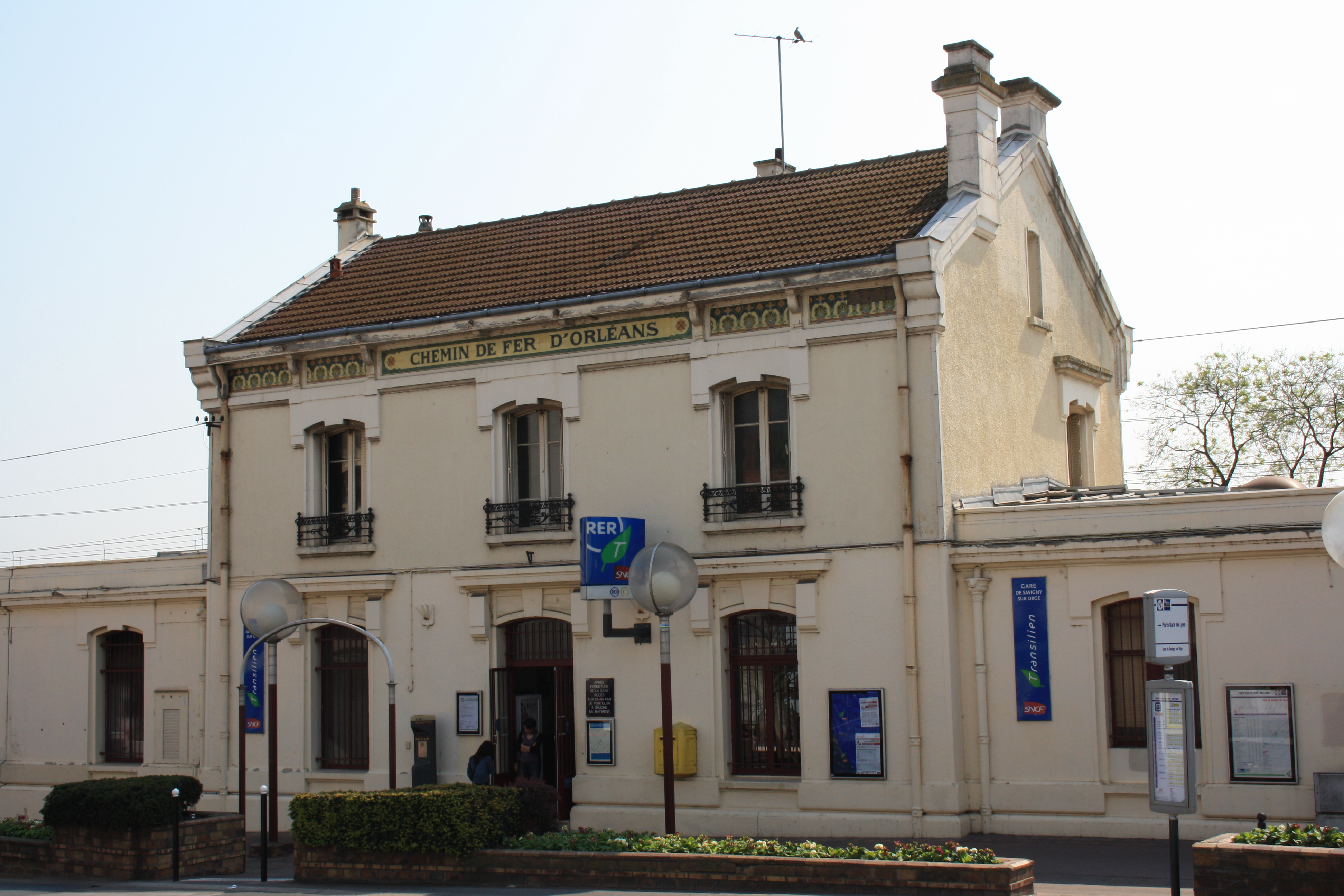 Savigny-sur-Orge railway station in France